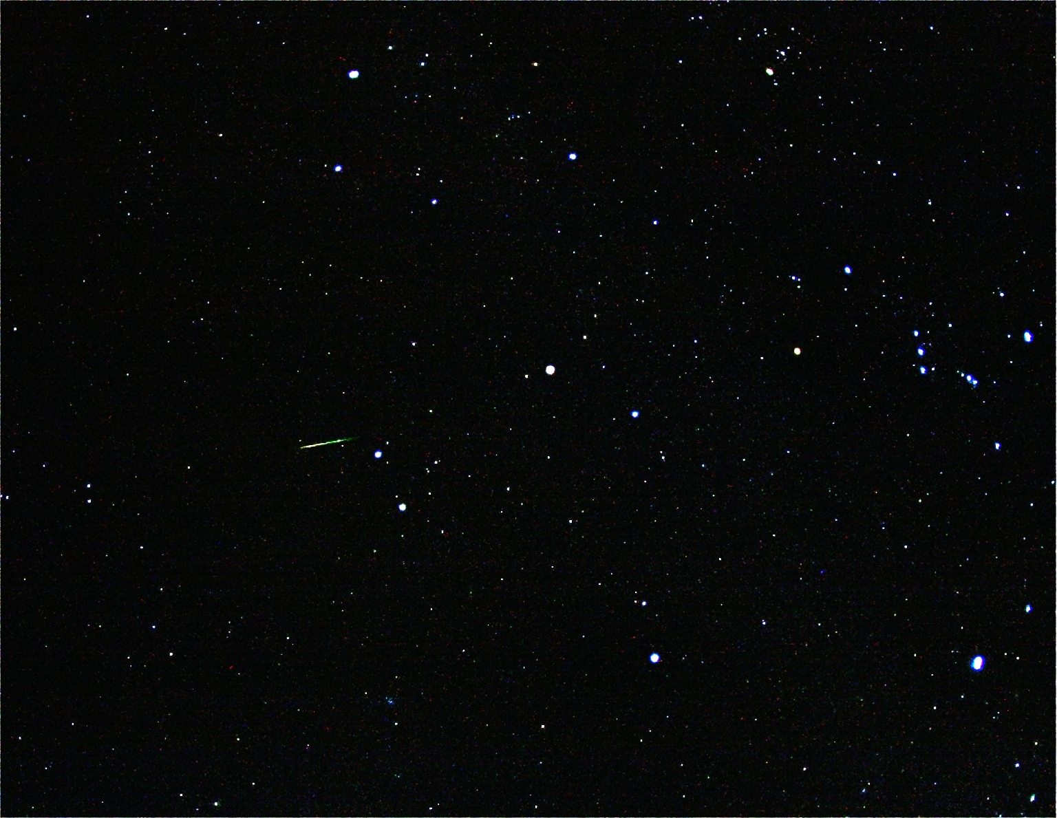 A green Orionid meteor